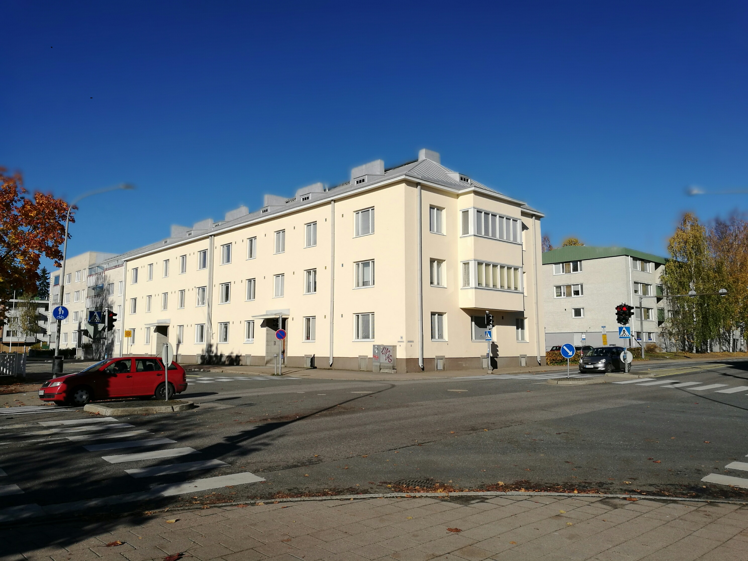 Niskakatu 24 building in Joensuu city